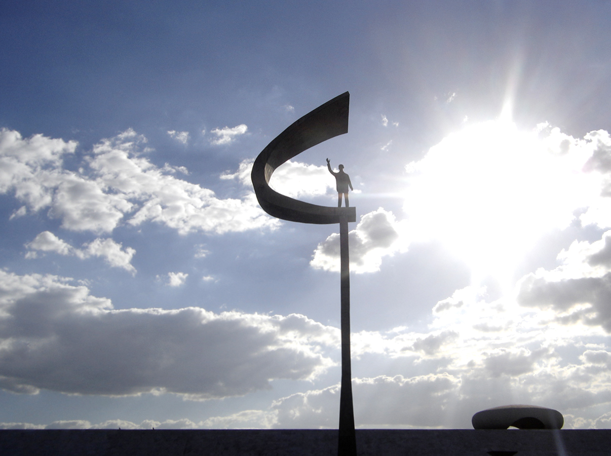 Picture of Memorial JK, Brasilia's museum dedicated to Juscelino Kubitschek de Oliveira.